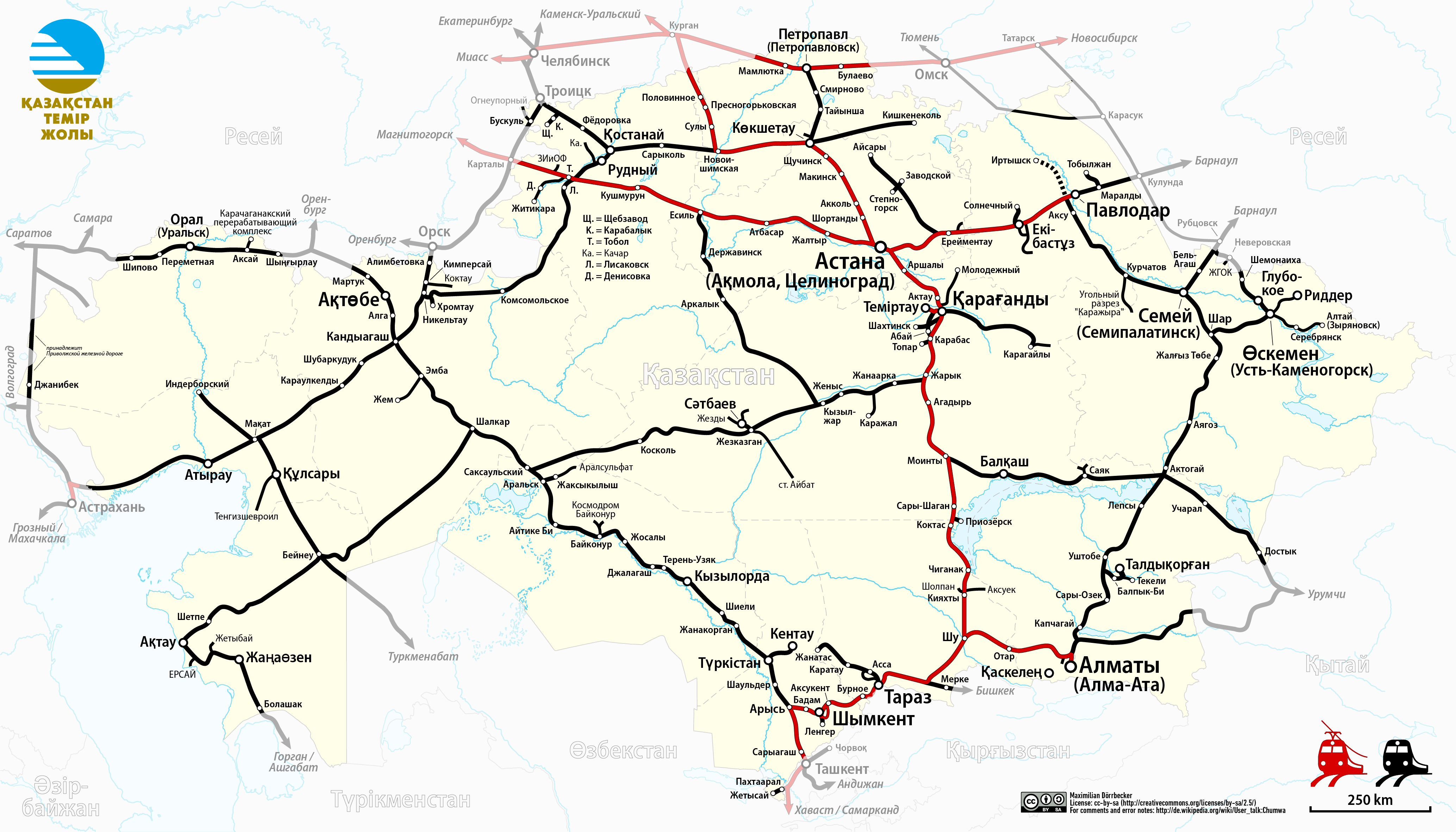 Railway map of Kazakhstan